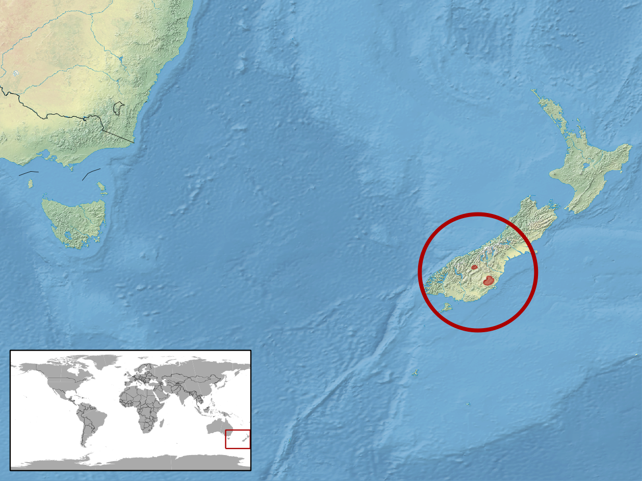 geographic distribution of Oligosoma otagense